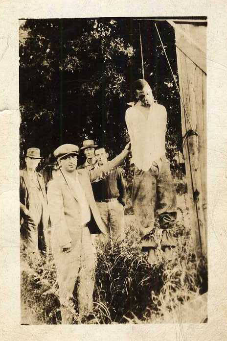 Hanging in Georgia (black man hung by a white mob)